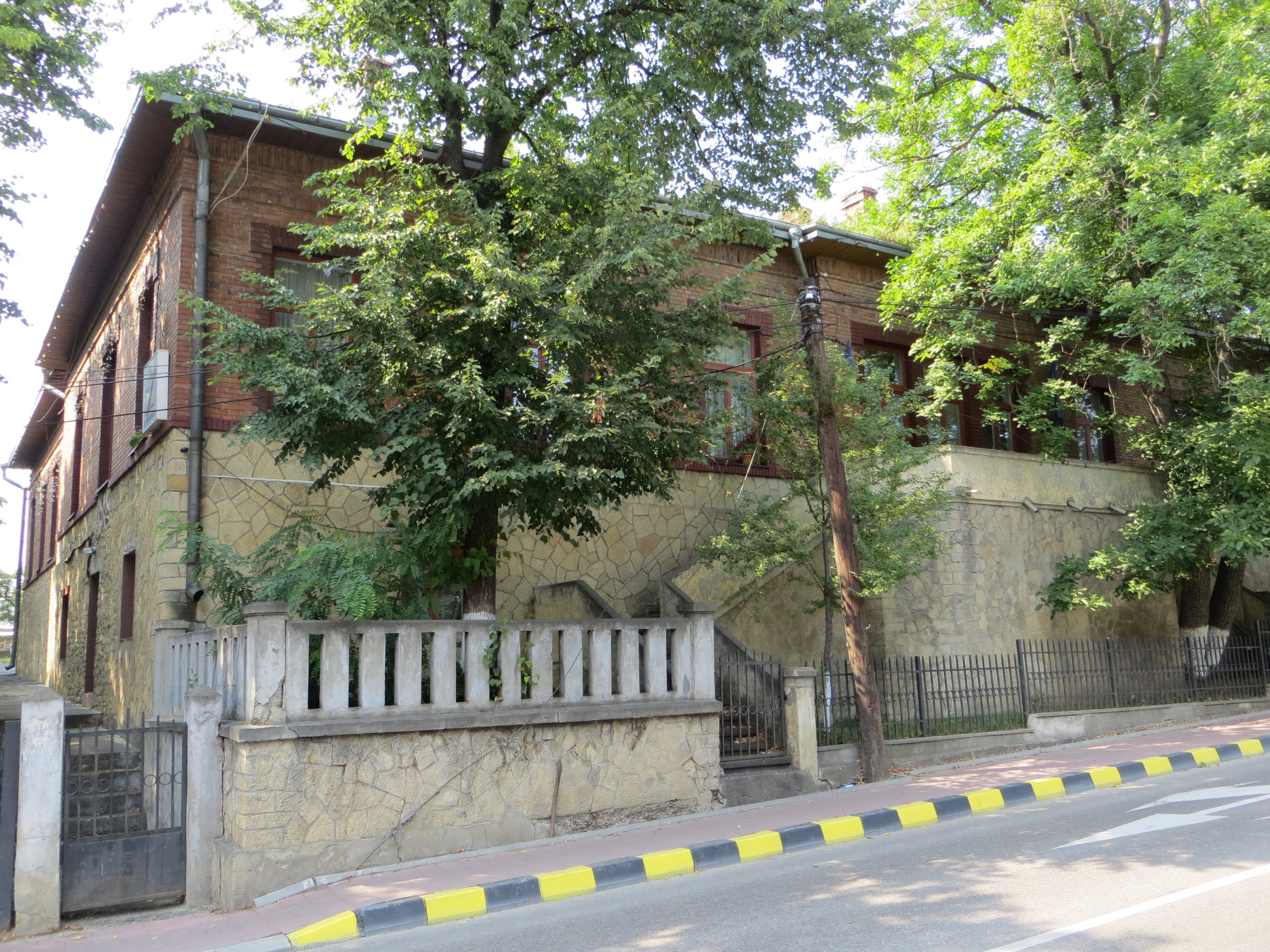 Former Burdujeni Town Hall in Suceava, currently Electroconstrucţia Elco headquarters.